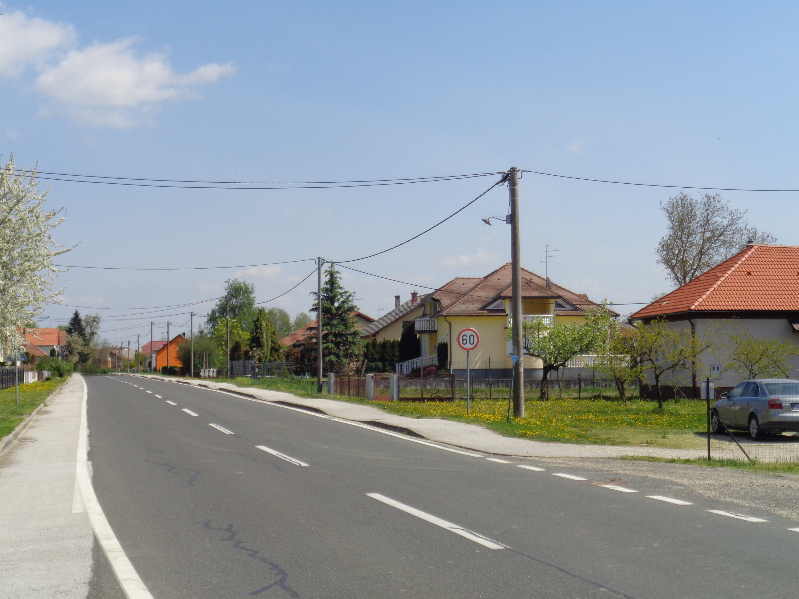 Donji Pustakovec village, Donji Kraljevec municipality, Medjimurje County, Croatia